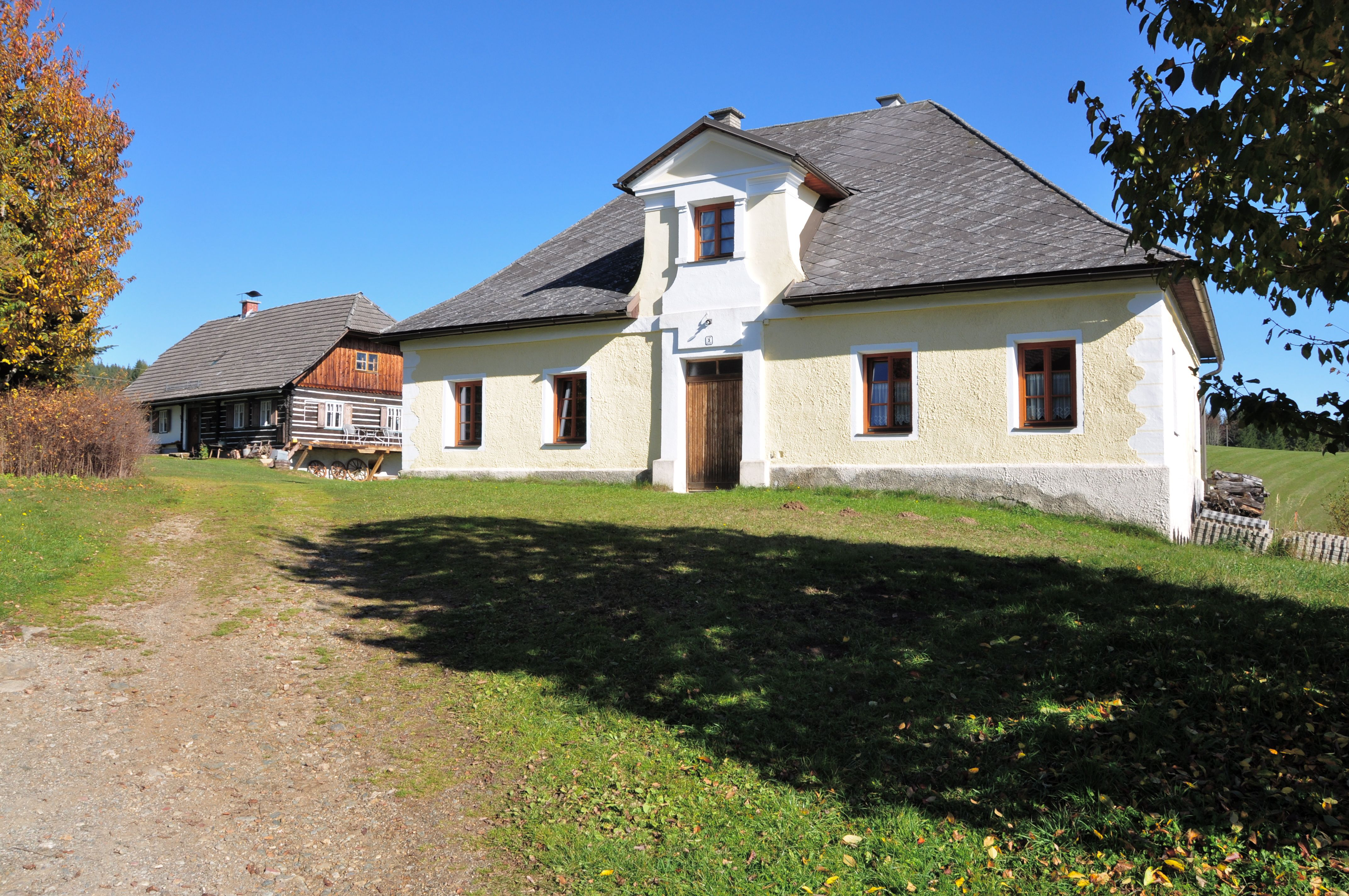 Rectory in Sankt Jakob #6, municipality Straßburg, district Sankt Veit, Carinthia, Austria, EU